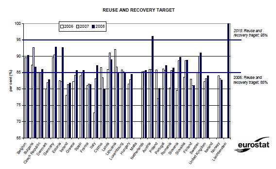 Quota results of European countries to prove compliance with EU ELV Directive obligations.